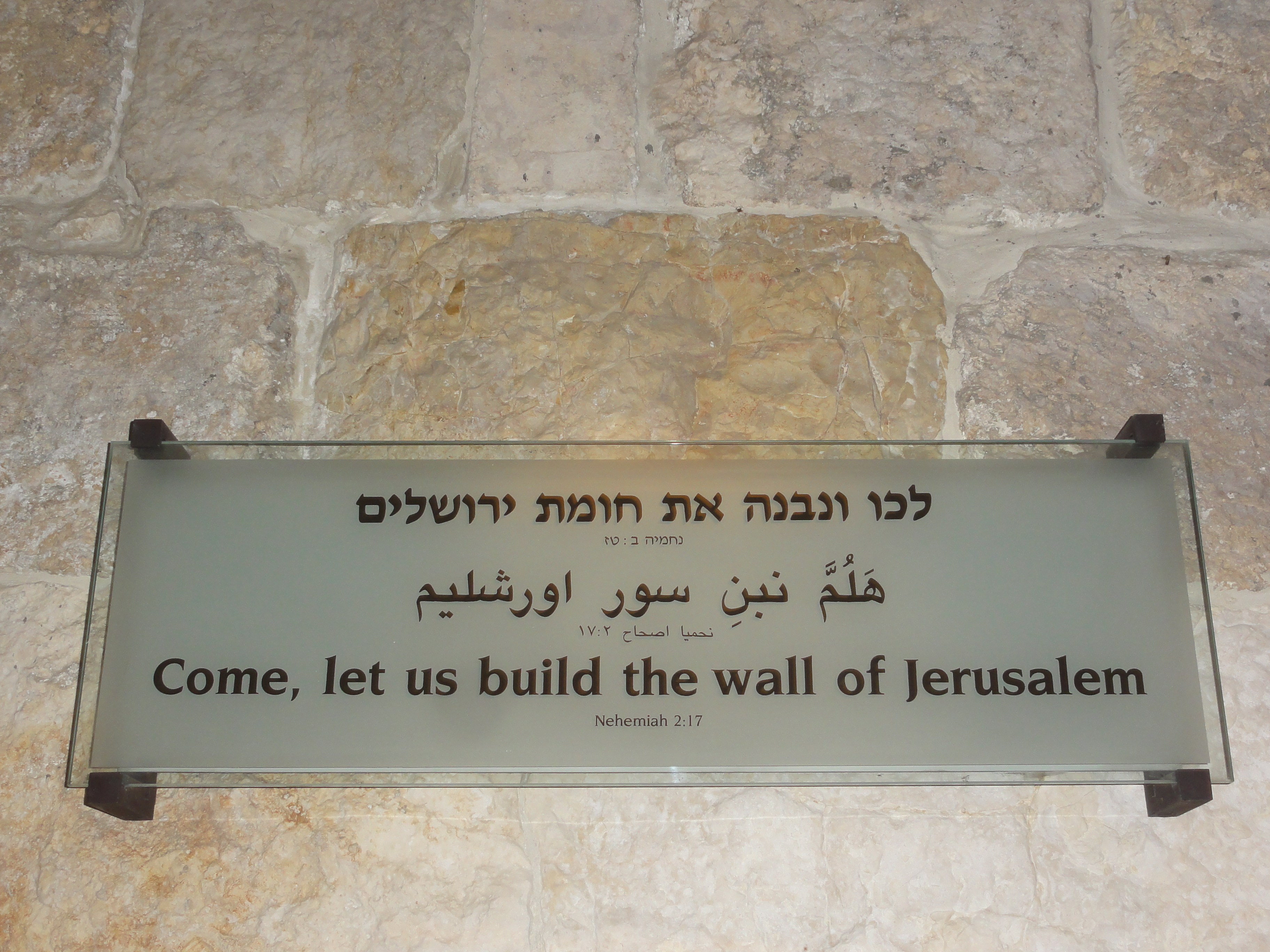 Book of Nehemiah, East Jerusalem (Tower of David)